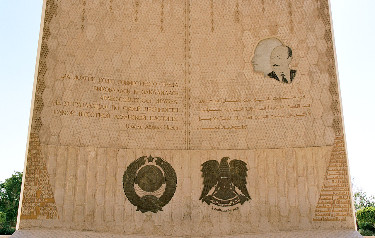 A memorial wall, on the inside of the Lotus Flower tower, located at Aswan High Dam, Egypt. October 2004. The writing on this wall can be loosely translated to the following: "Through the long years of cooperation, Soviet-Arabic friendship was sculpted and solidified. Friendship as great as the Aswan High Dam itself. Gamal Abdul Nasser" and (corners) "The fight for the highest dam is over and signifies a victory. This victory, is a victory of free people and free will, it's a victory of coordinated scientific endeavour and a victory of great Soviet-Arabic friendship, a victory of free world and progress. Anwar Sadat".